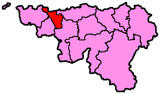 Location of the constituency of Soignes in Wallonia